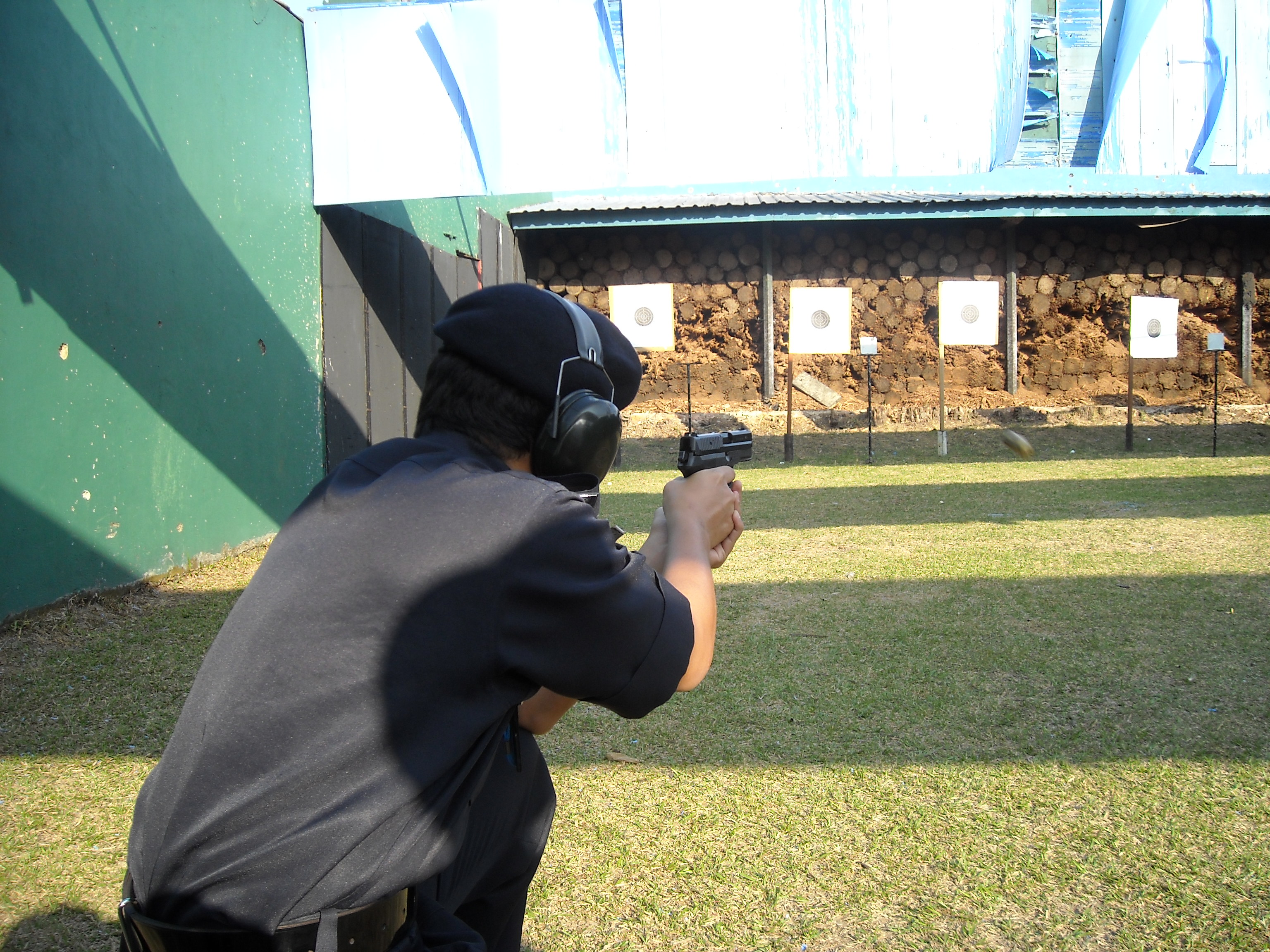 The Royal Malaysian Police personnel firing the SIG Pro 2022. See the casing is thrown out to the right side.